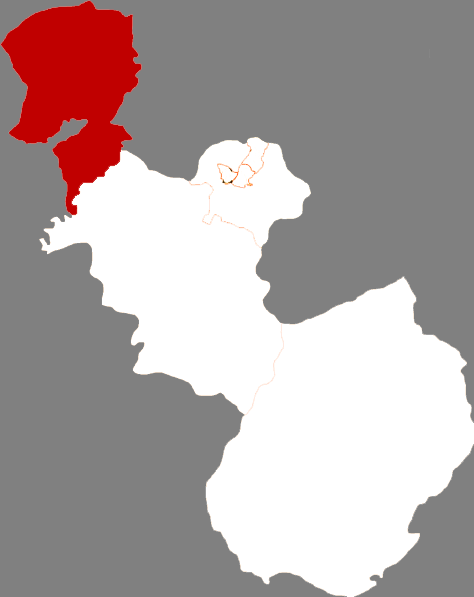 Location of Tai'an сounty in Anshan City, China